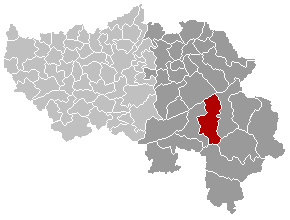 Map, municipality belgium Malmedy